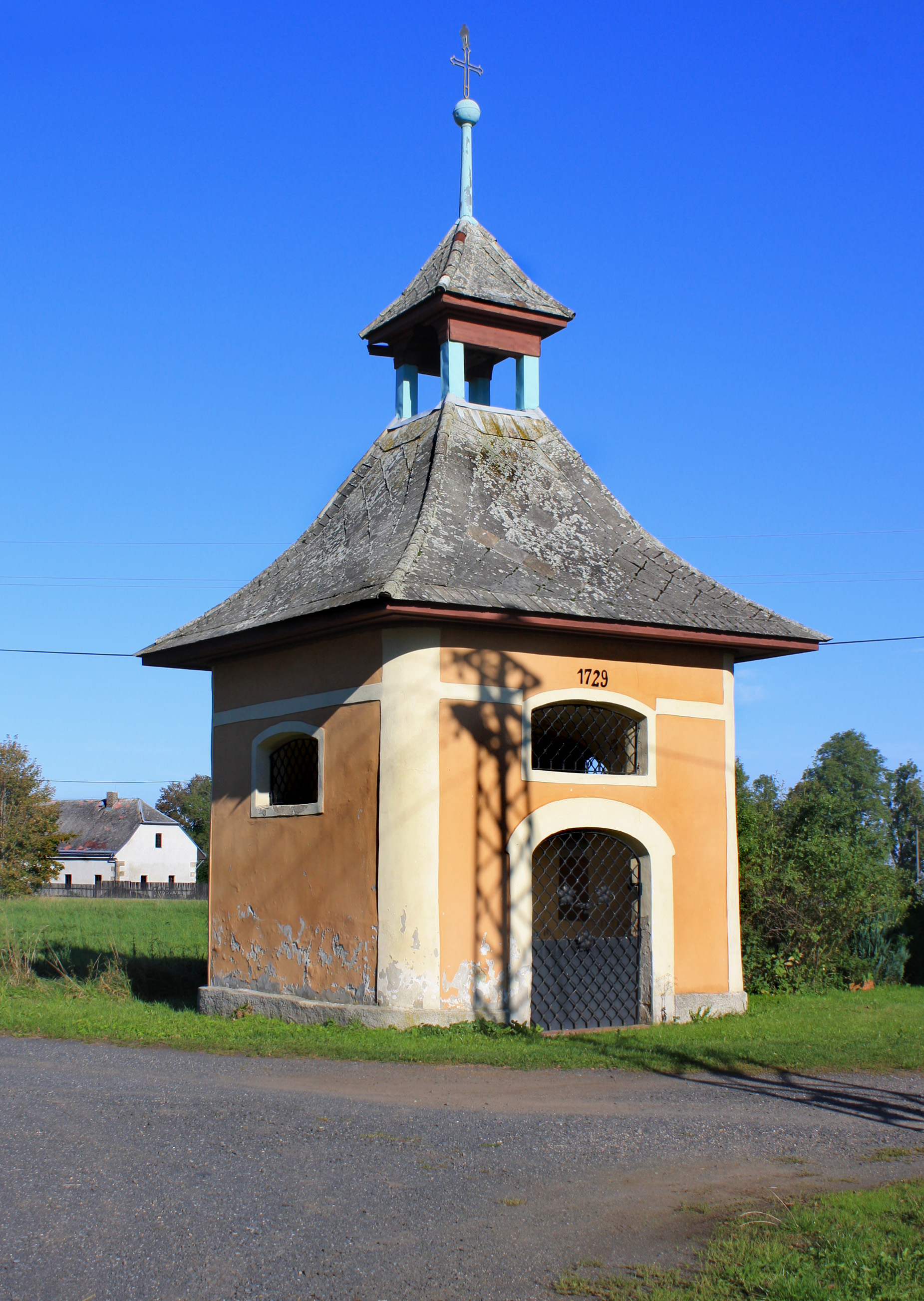 Chapel in Albrechtice u Frýdlantu, part of Frýdlant, Czech Republic